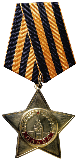 Soviet Order of Glory 1st class (USSR)